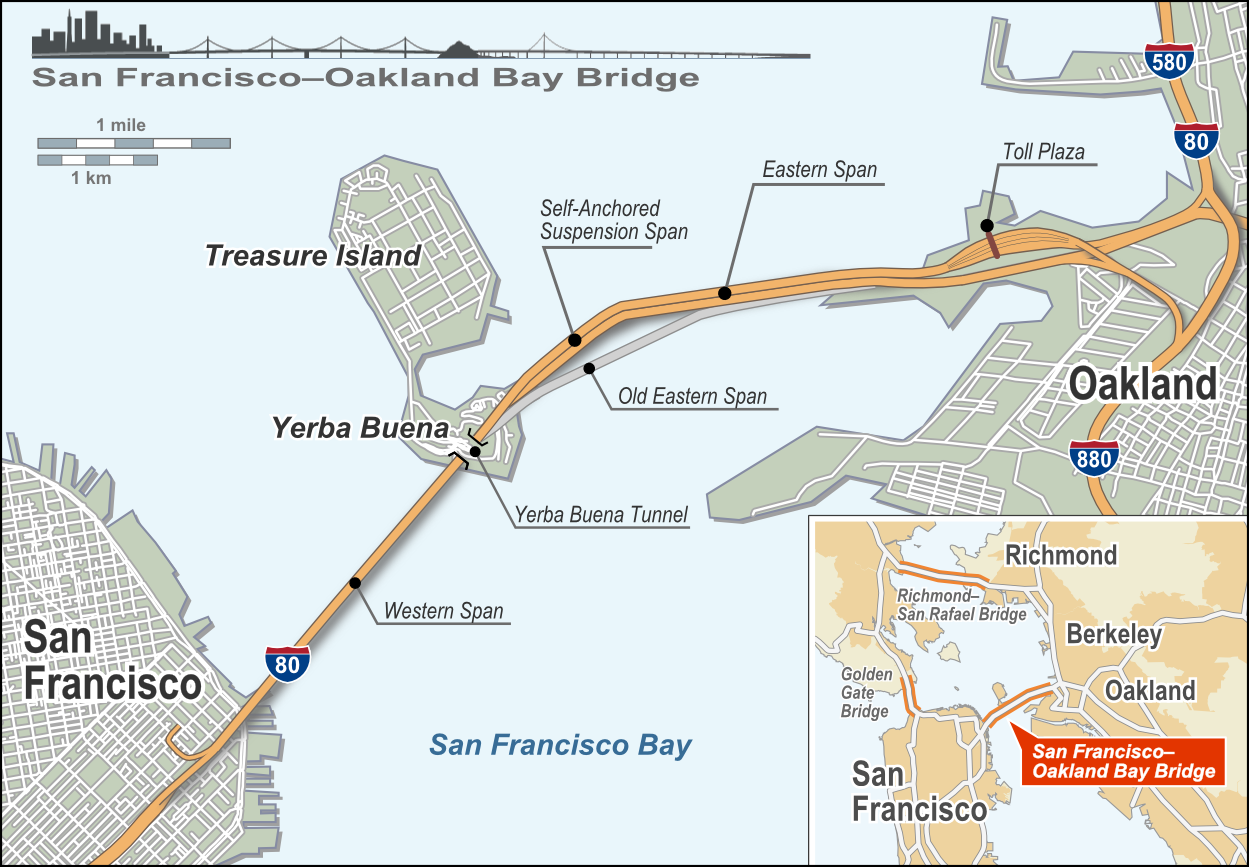 San Francisco-Oakland Bay Bridge layout map including proposed eastern span replacement